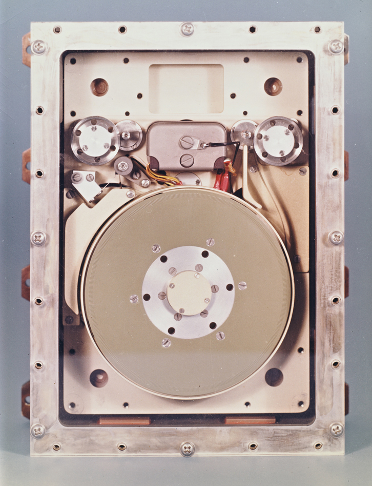 The tape recorder aboard Mariner 4 spacecraft, on a mission to Mars, used for data storage.